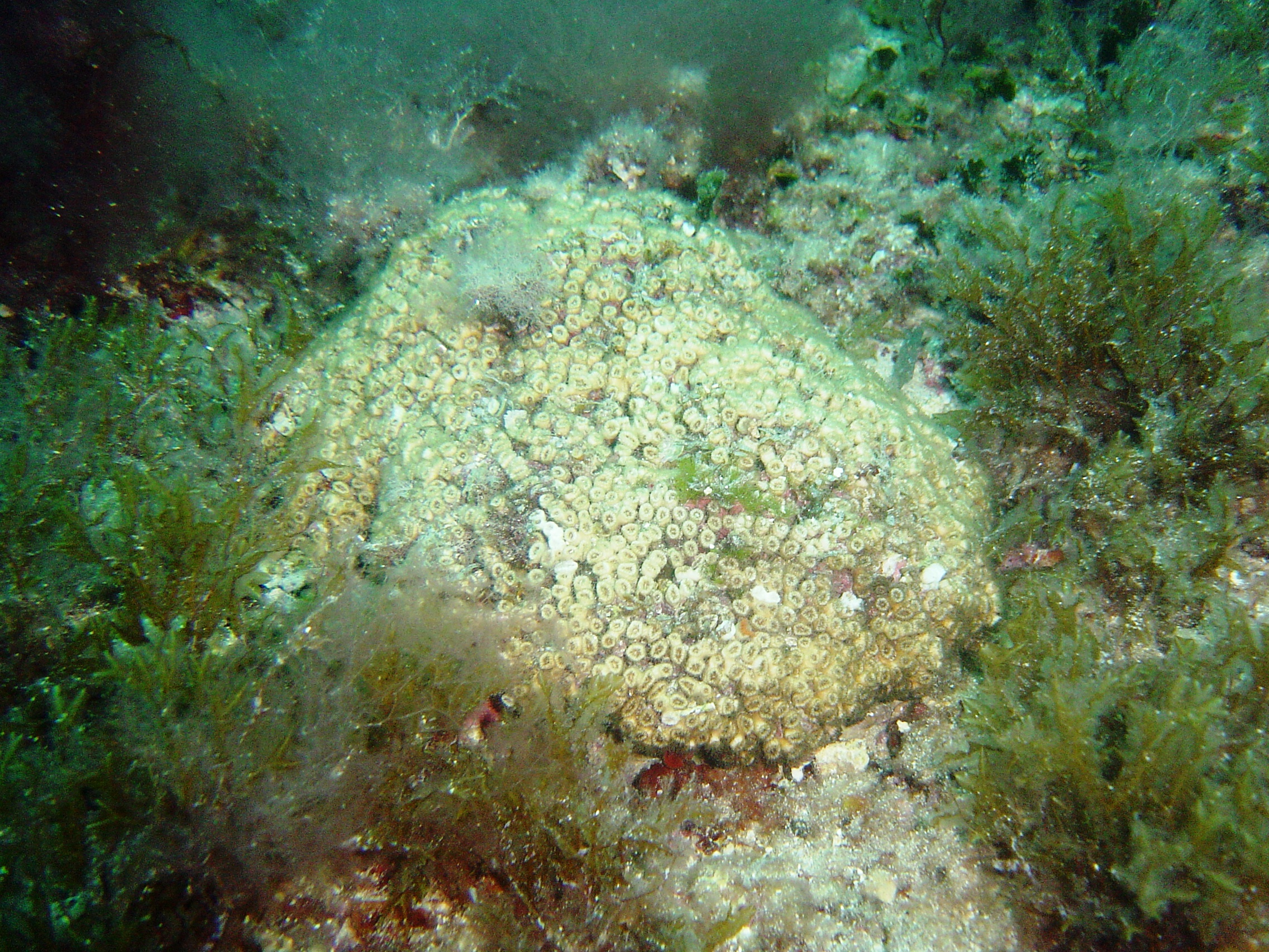 Cladocora caespitosa AMP Capo Gallo, Mediterranean Sea